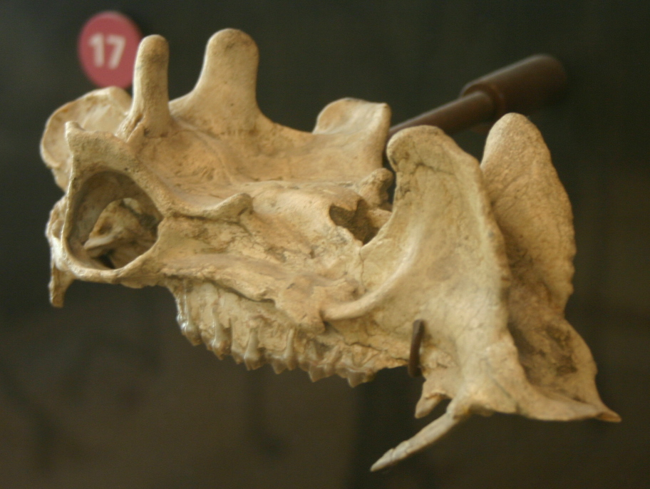 first horn Visit my blog at